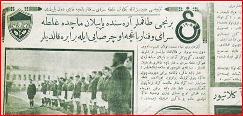 Gazi Bust First Game score on newspaper